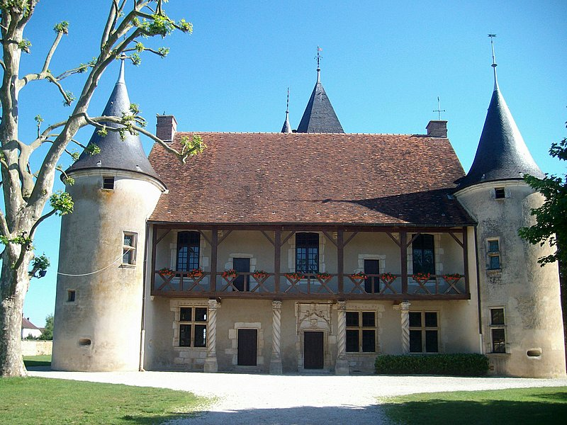 The photo was taken in front of the manoir at Rumilly